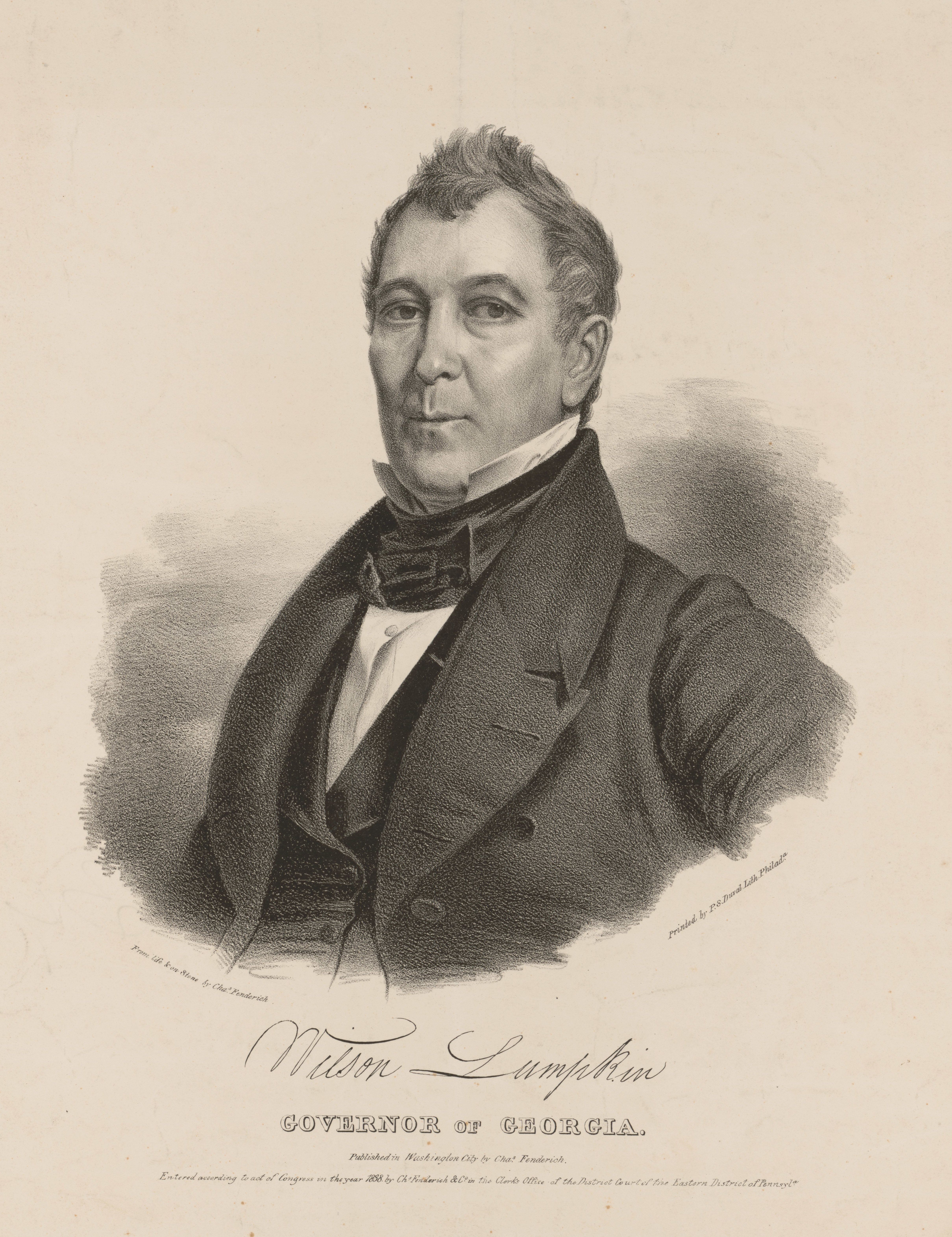 Title: Wilson Lumpkin, Governor of Georgia / from life & on stone by Chas. Fenderich. Abstract/medium: 1 print : lithograph ; sheet 55.9 x 39.1 cm.